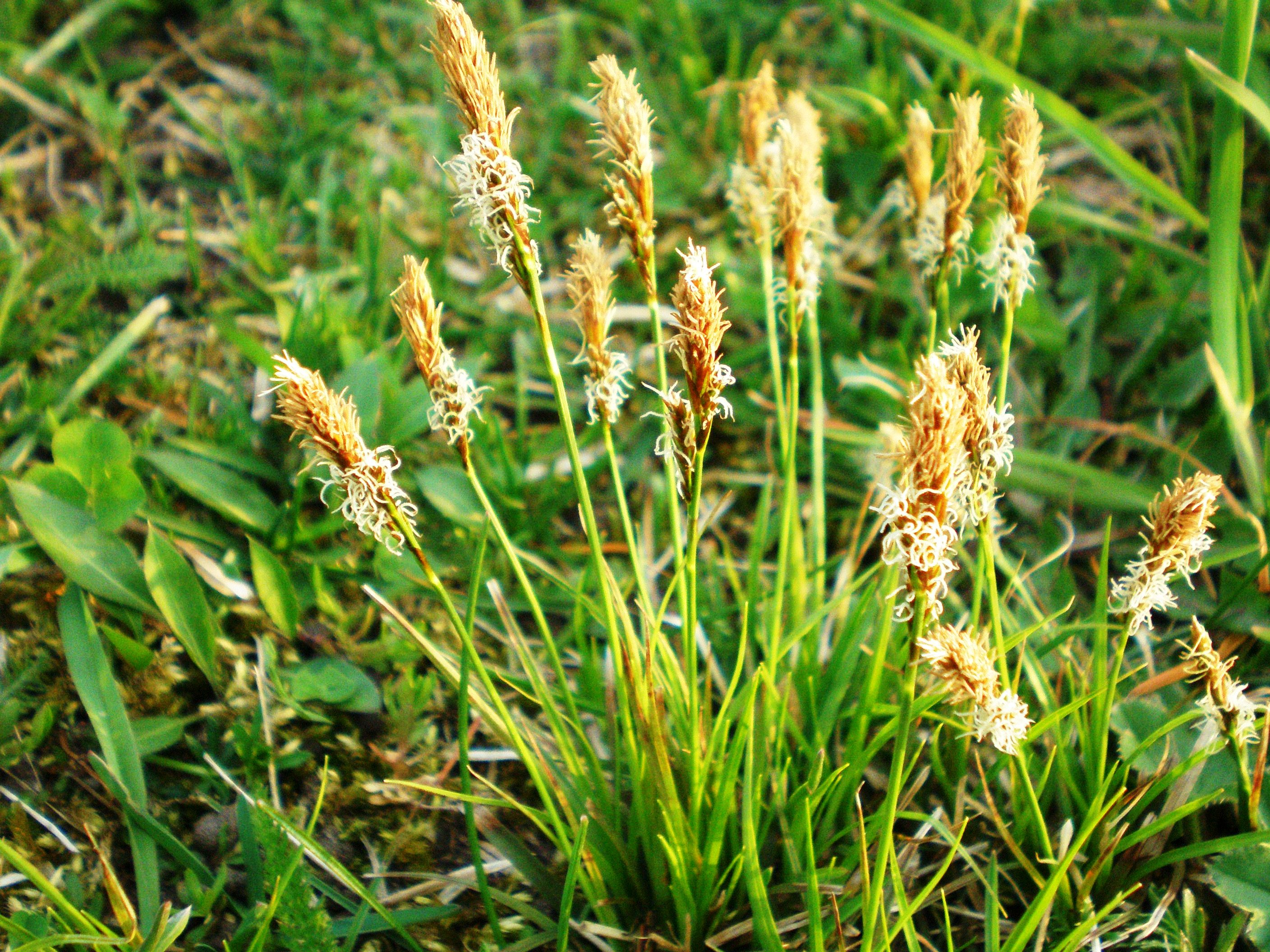 Carex caryophyllea